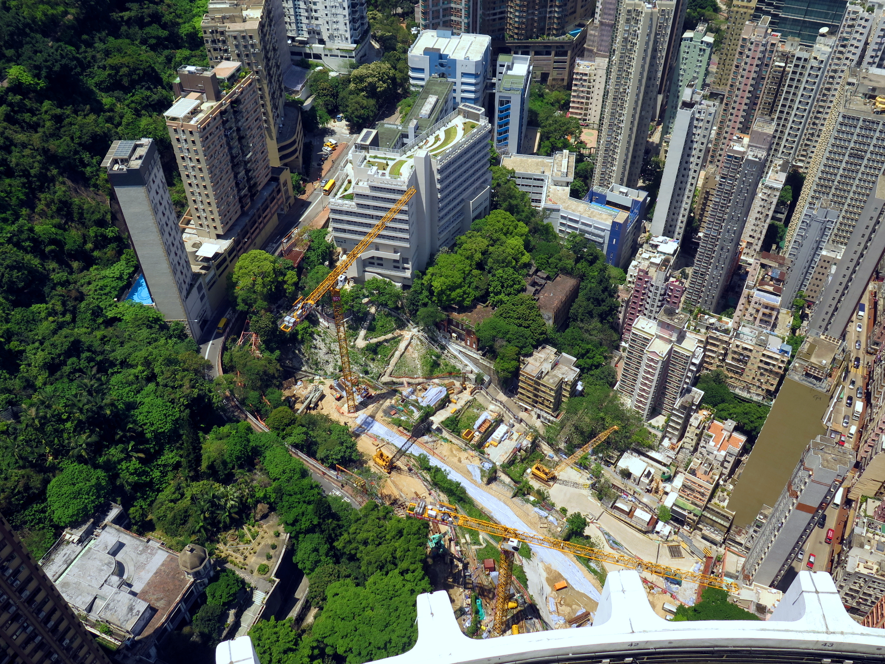 Hopewell Centre Phase 2 site